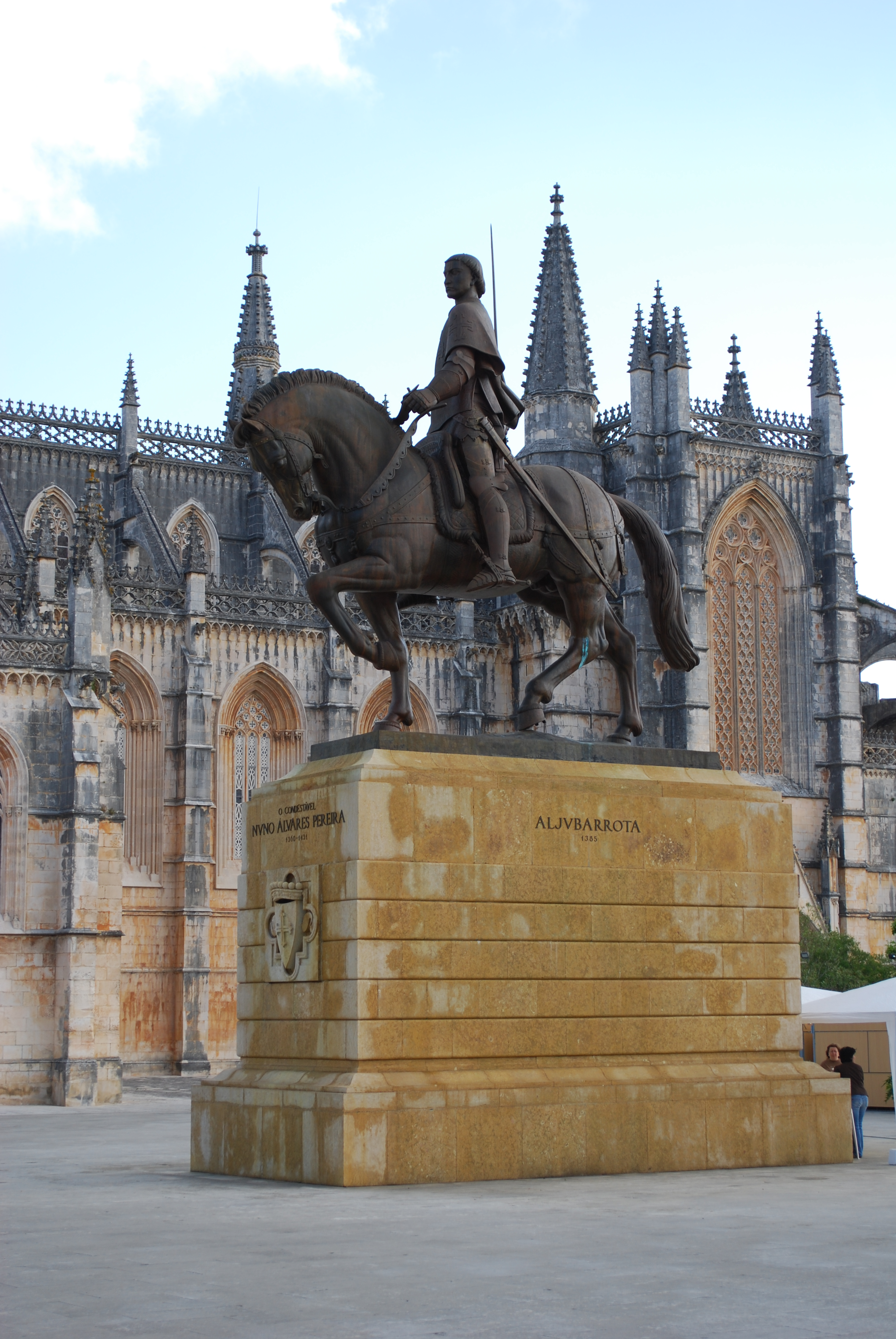 This file was uploaded for Wiki Loves Monuments in Portugal with the unique identifier 97029002.